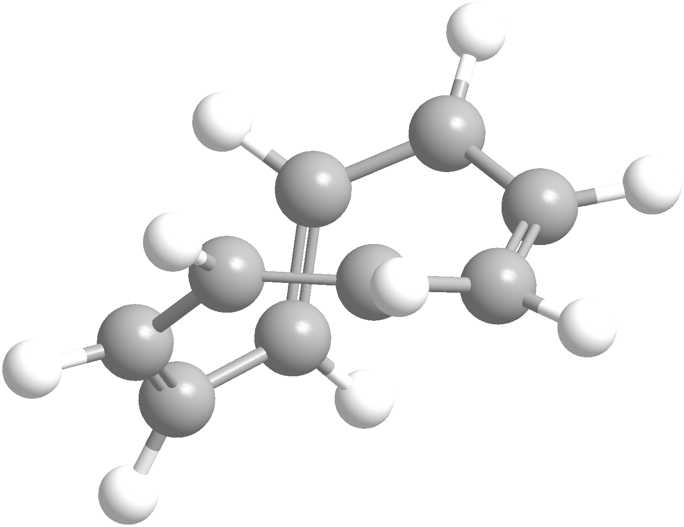 Computed structure of trans-C9H9+ (B3LYP/3-21G)